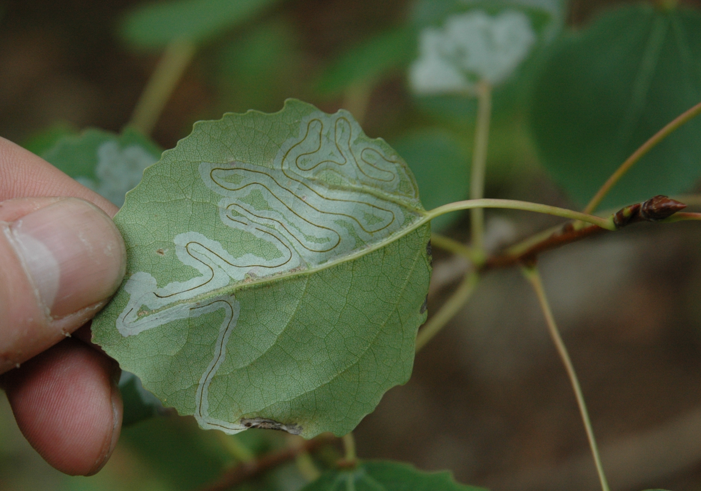 The mines of Phyllocnistis labyrinthella on a leaf from an aspen. My own photography, taken in Røyken, Norway. Photographer's name Kjetil Lenes